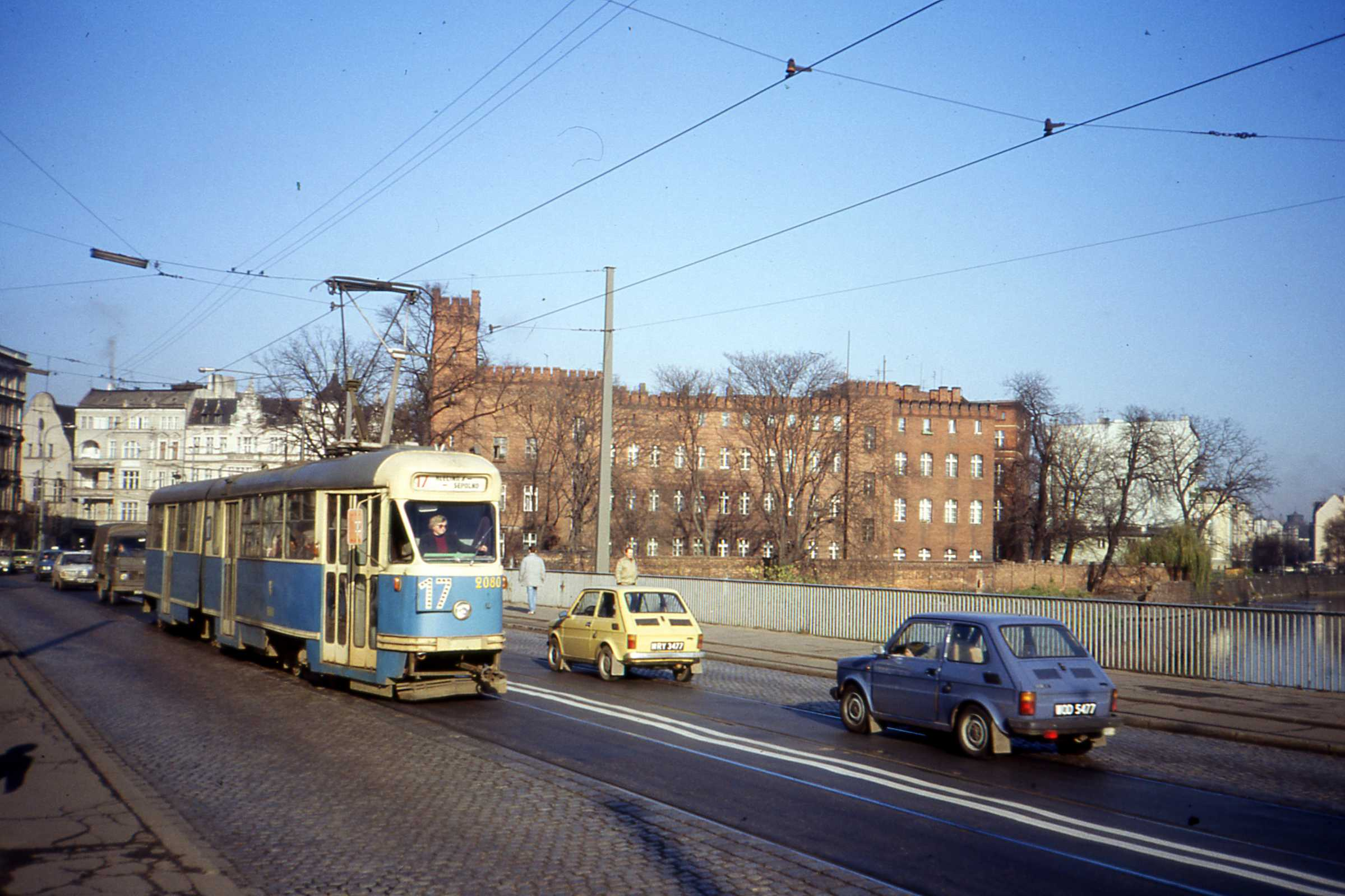 Konstal 102Na tram no 2080 . Route 17 to Sepolno. Over 100 of these fine articulated 102Na trams were acquired by Wroclaw